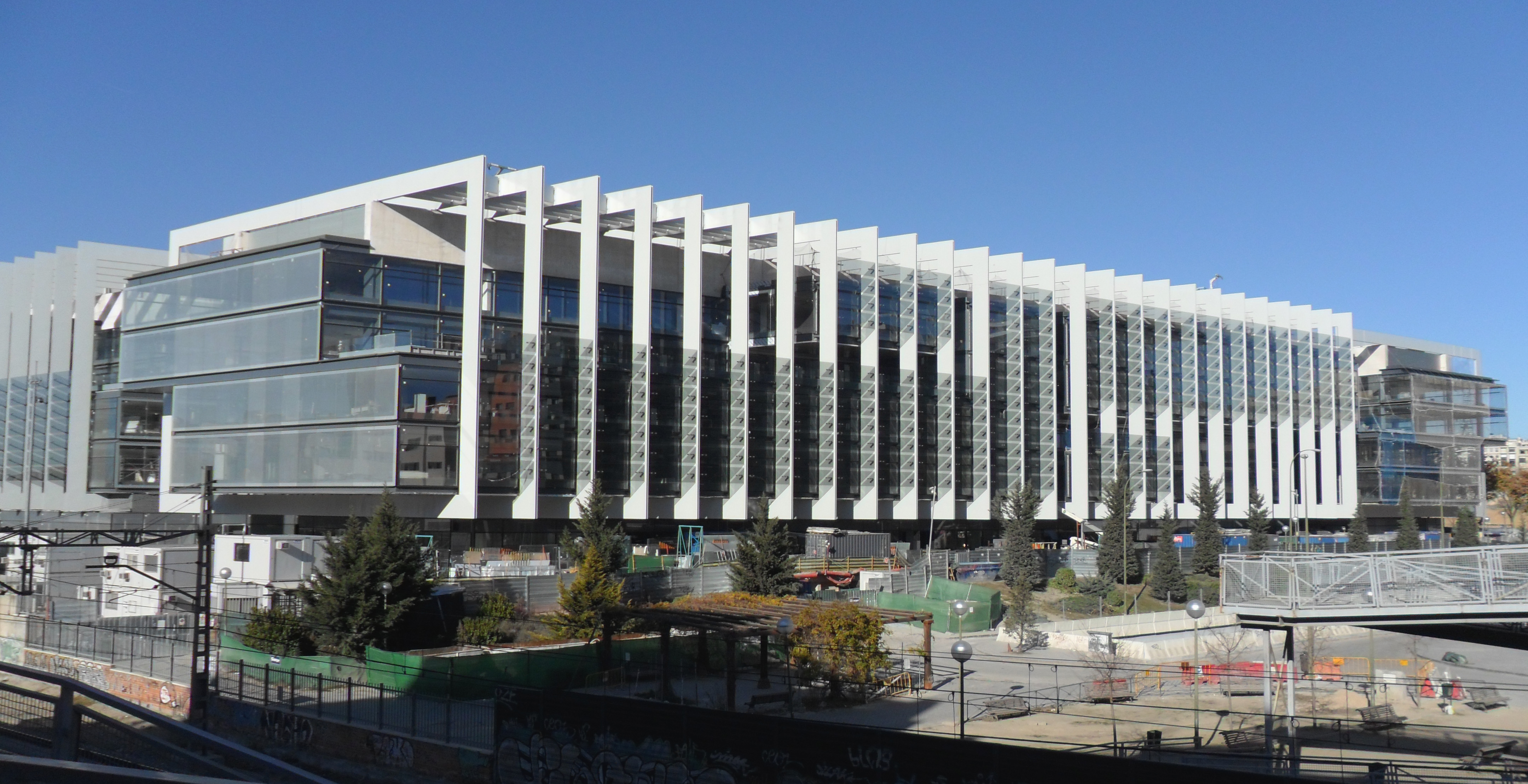 View, from the south angle, of Repsol headquarters in Madrid (Spain) under construction.